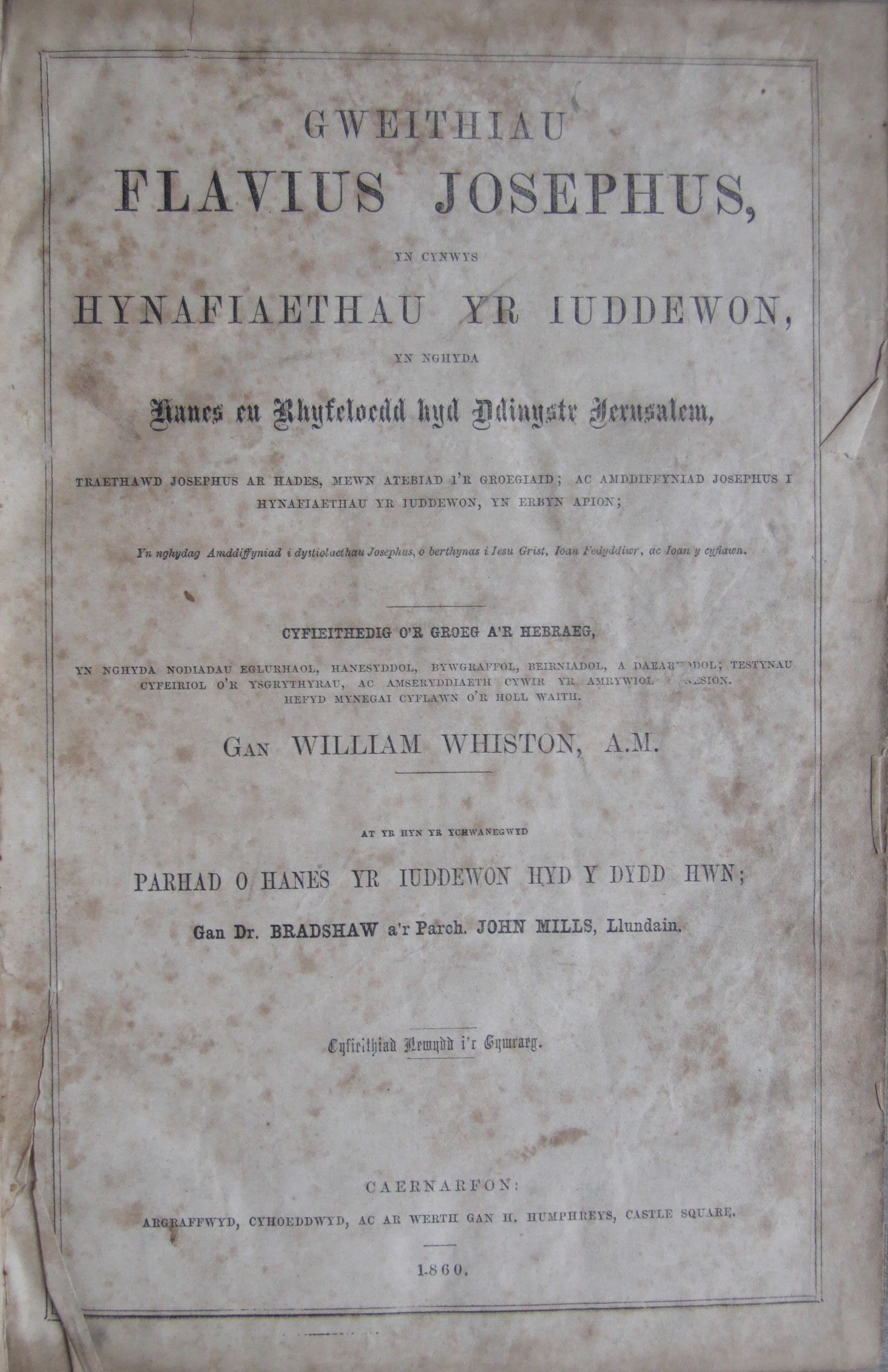 Title page of Gweithiau Joesphus (Caernarfon, 1860), a Welsh-language translation of the works of early Jewish historan Flavius Josephus.